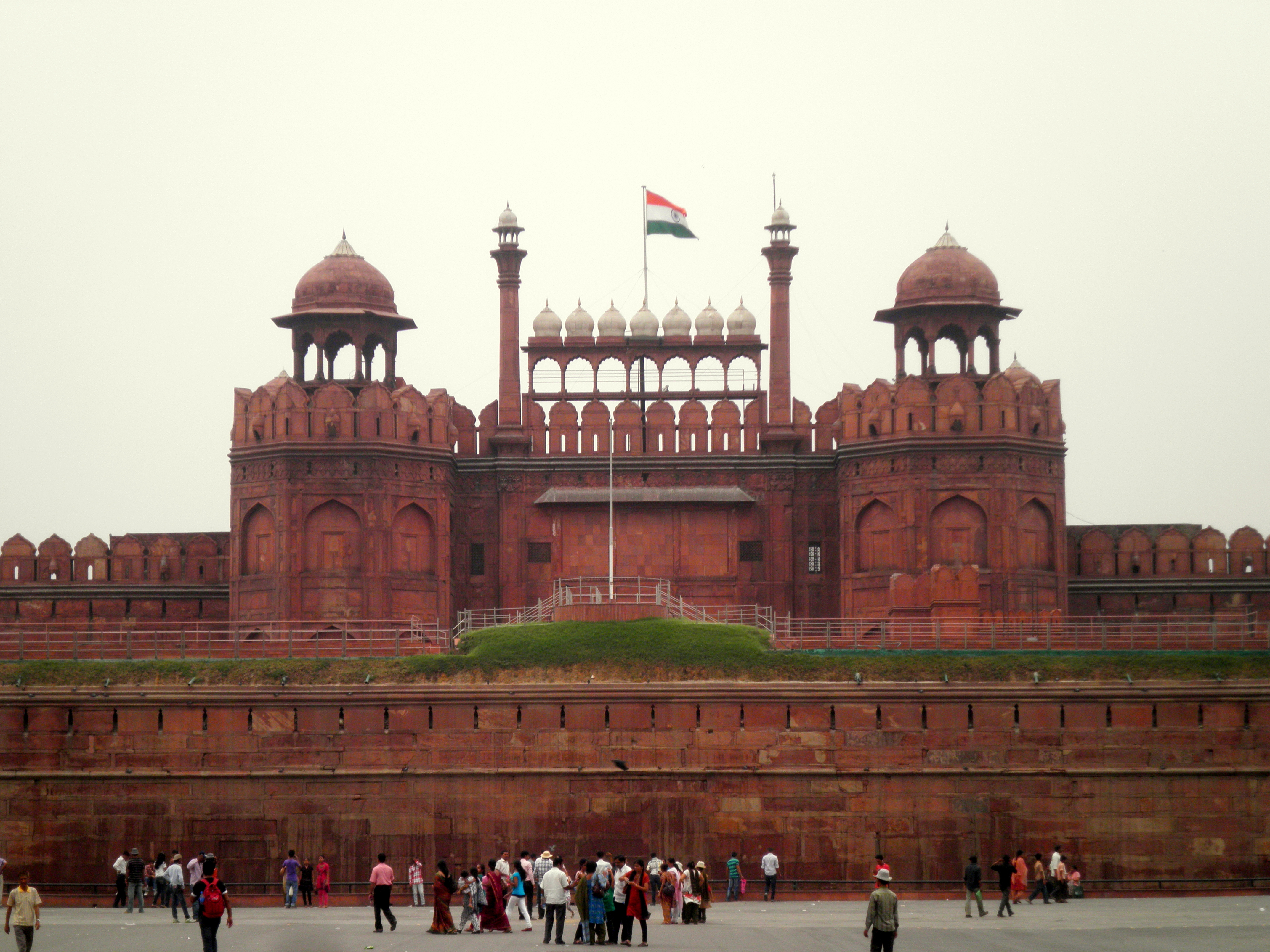 it is called the red fort it is the place where the prime minister addresses the gathering on independence day and republic day